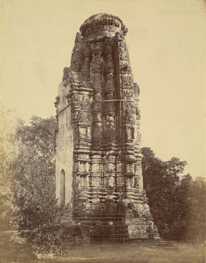 Ruins of the great Jain temple,Bhand_Dewal, at Arang